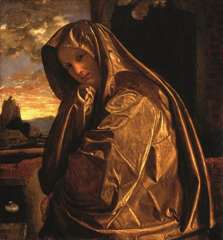 La Maddalena